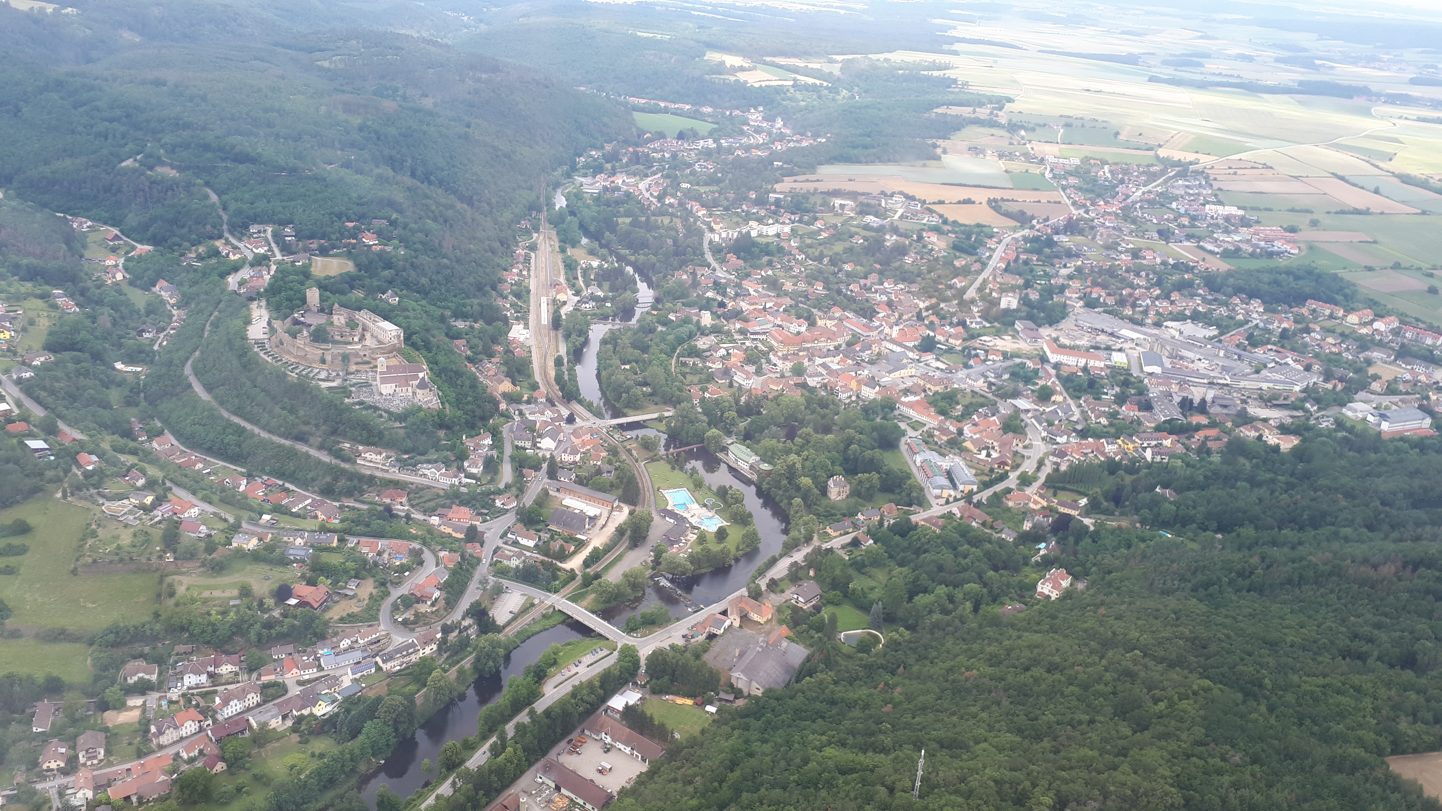 Gars am Kamp aerial view from south to north